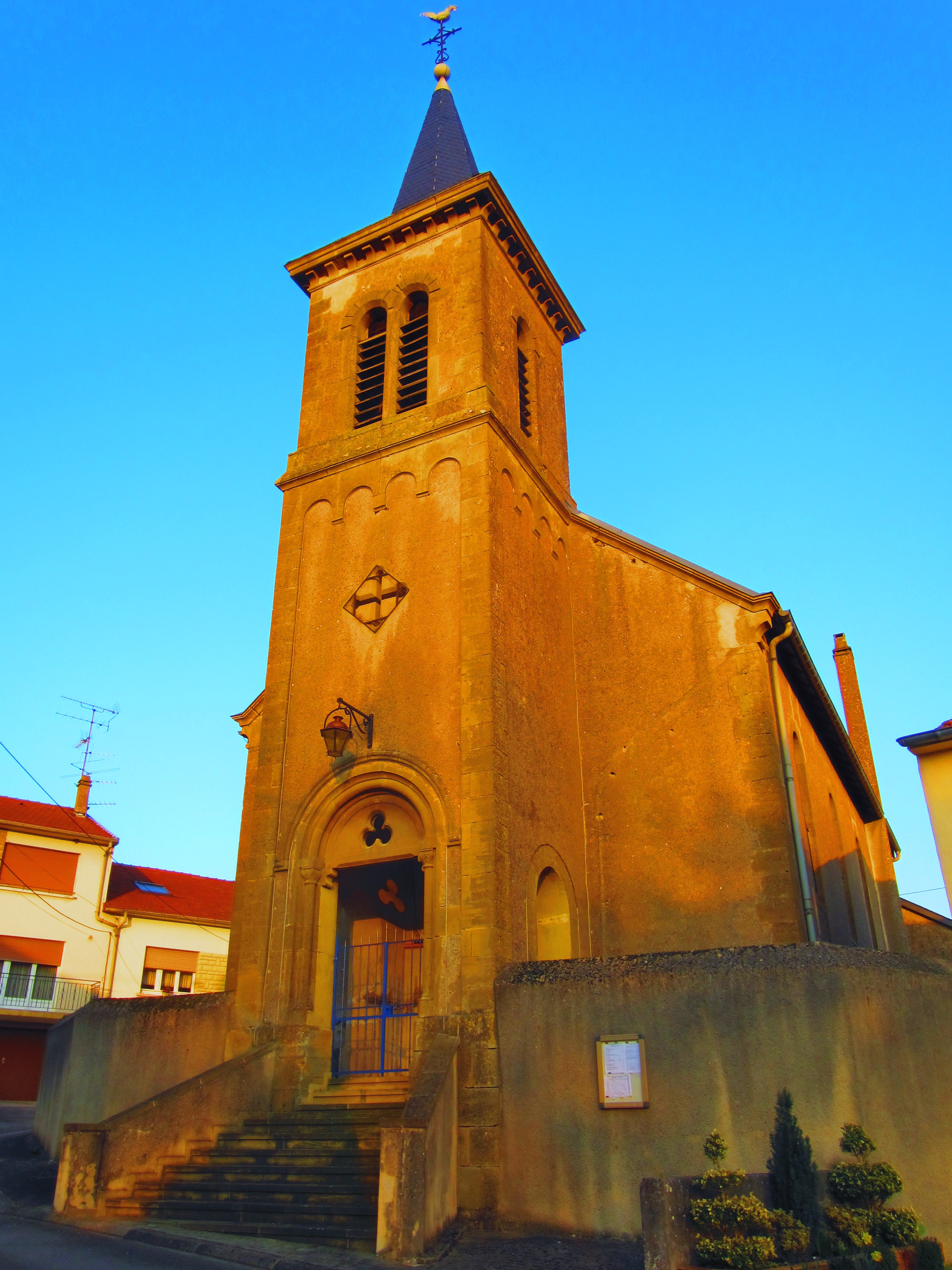 Petite Hetange Malling chapel